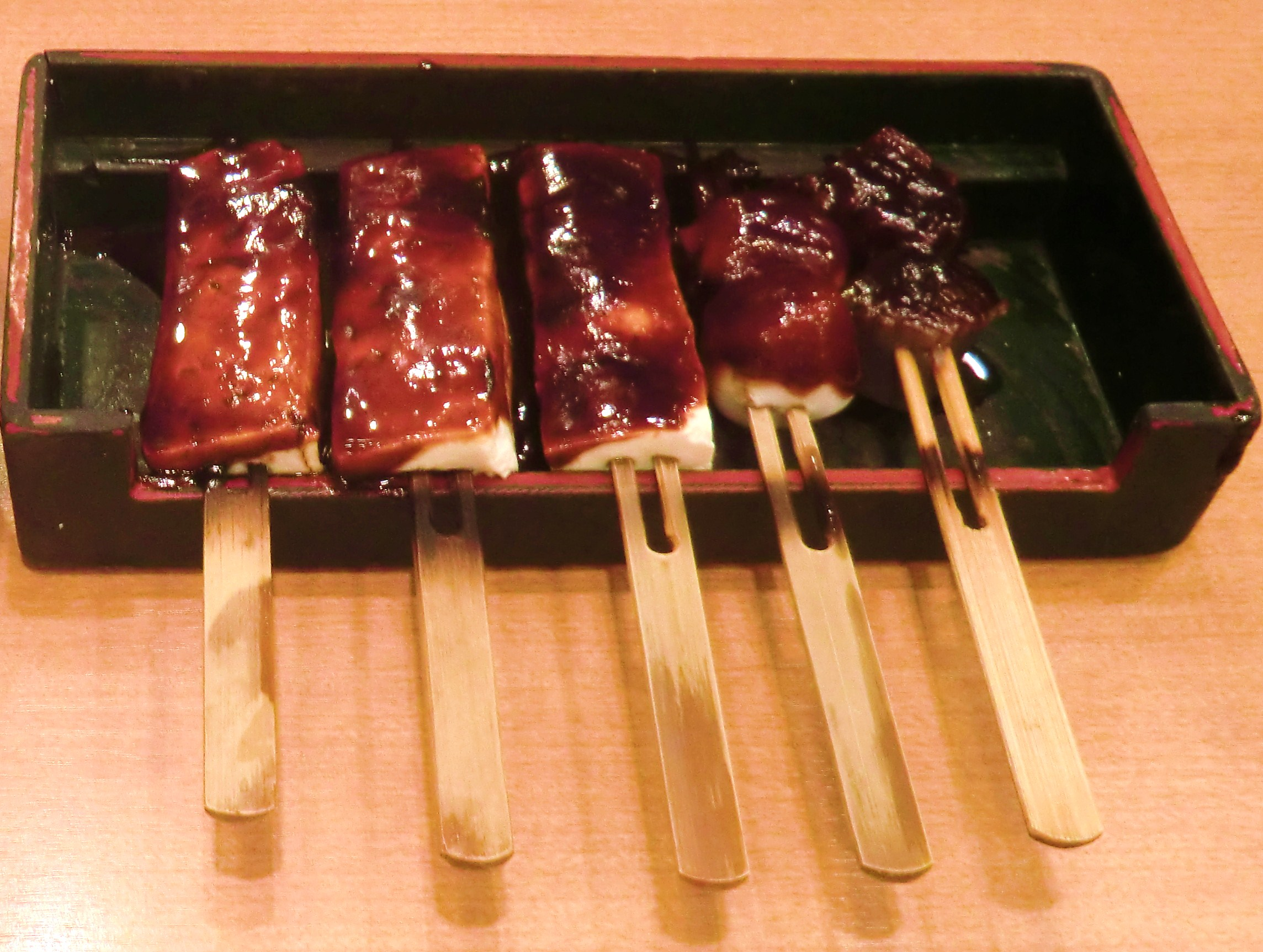 Dengaku